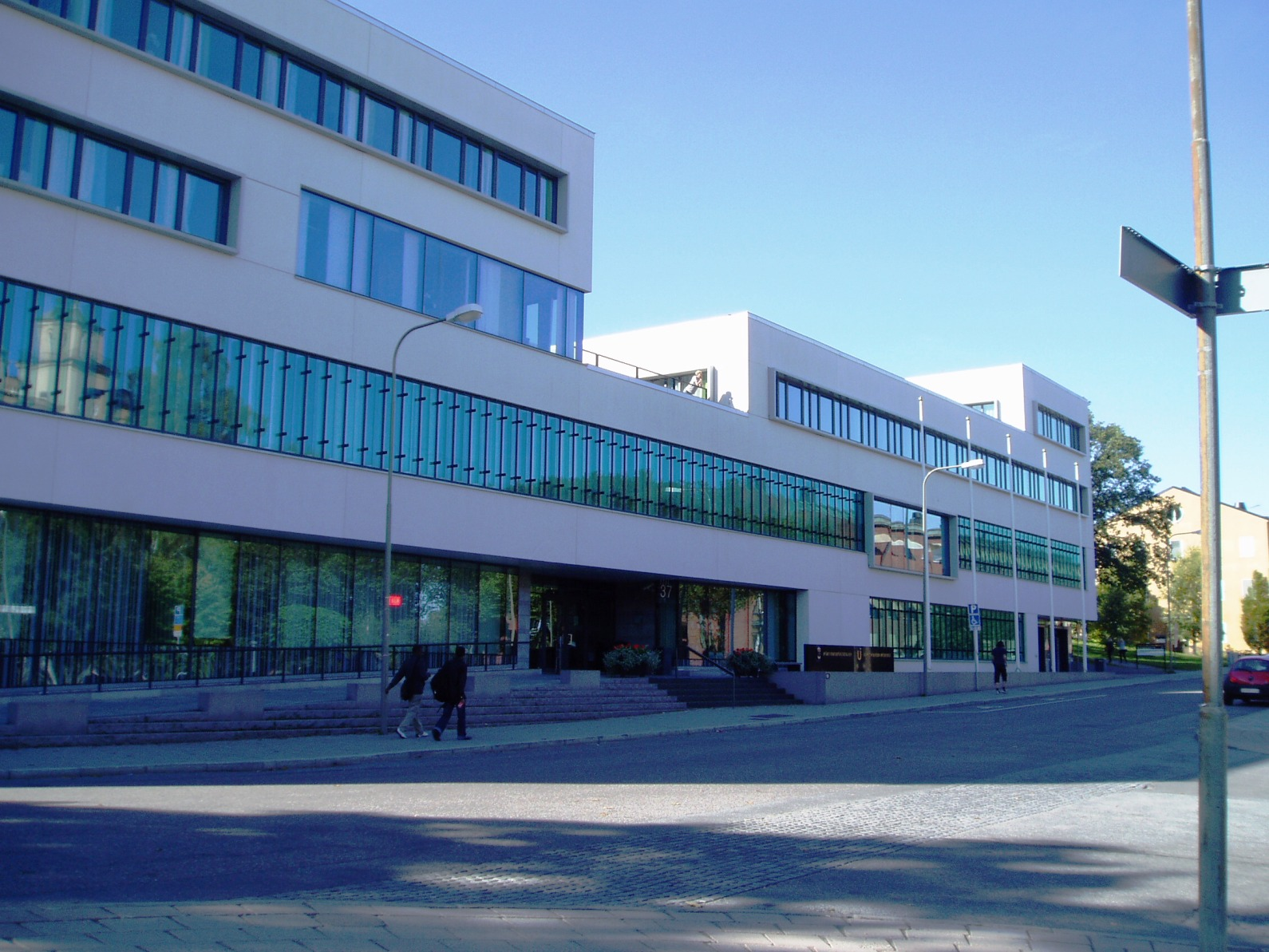 Swedish Institute for International Affairs, Stockholm